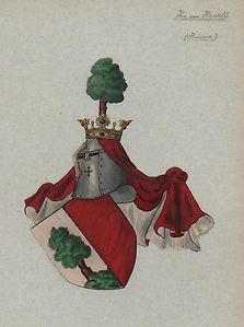 von Hassell